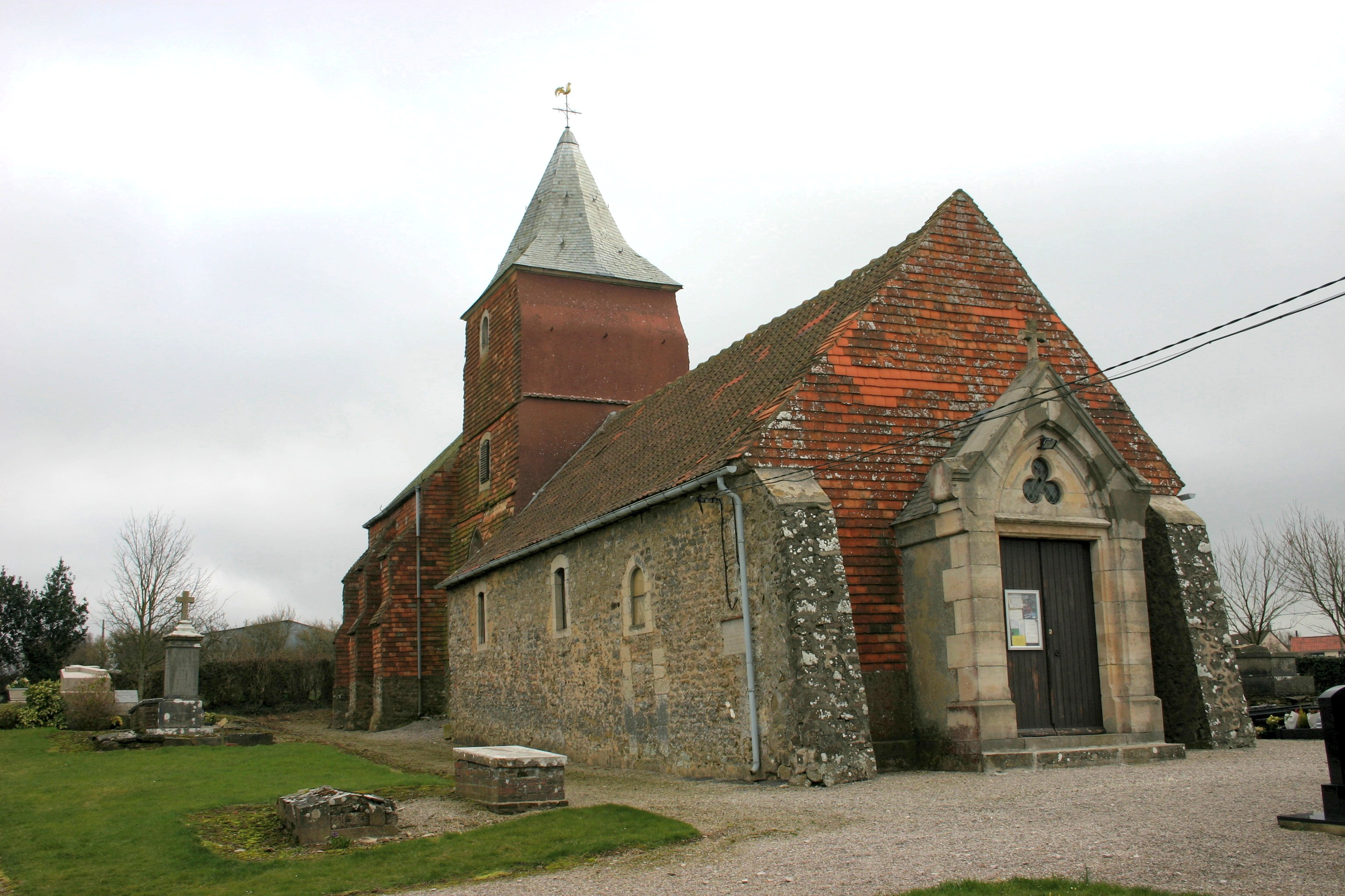 The church of Hesdres ( Pas-de-Calais - France )